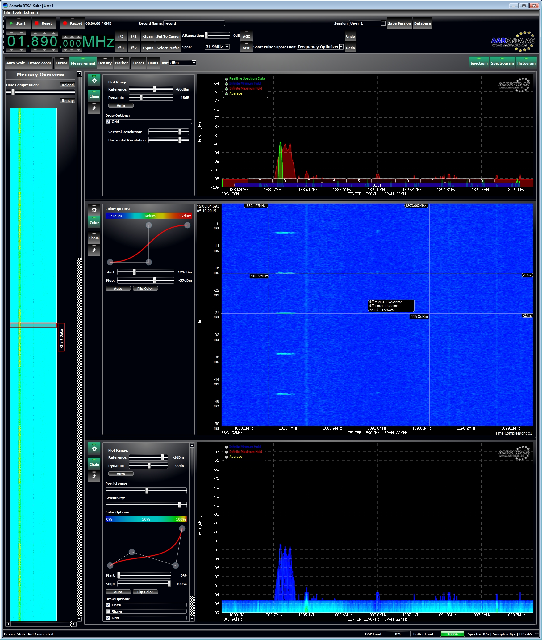 This picture shows the 100Hz (10mS) pulse duration of a DECT phone on channel 8